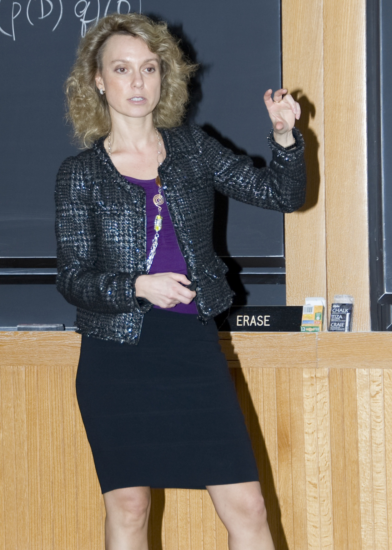 Mathematician Olga Holtz giving a presentation at the Fwd: photograph of Olga Holtz giving a presentation of the Institute for Advanced Study in Princeton, NJ.